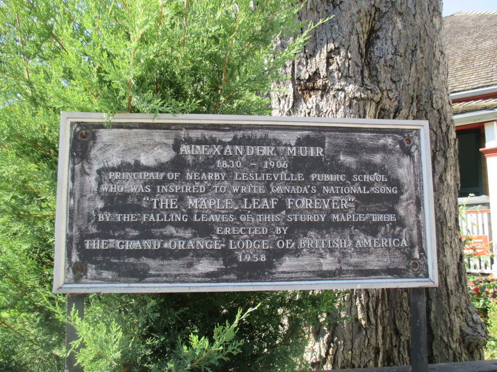 Plaque erected by the Orange Lodge in 1958 that proclaims that the silver maple at 62 Laing Street inspired Alexander Muir to write the song "The Maple Leaf Forever"